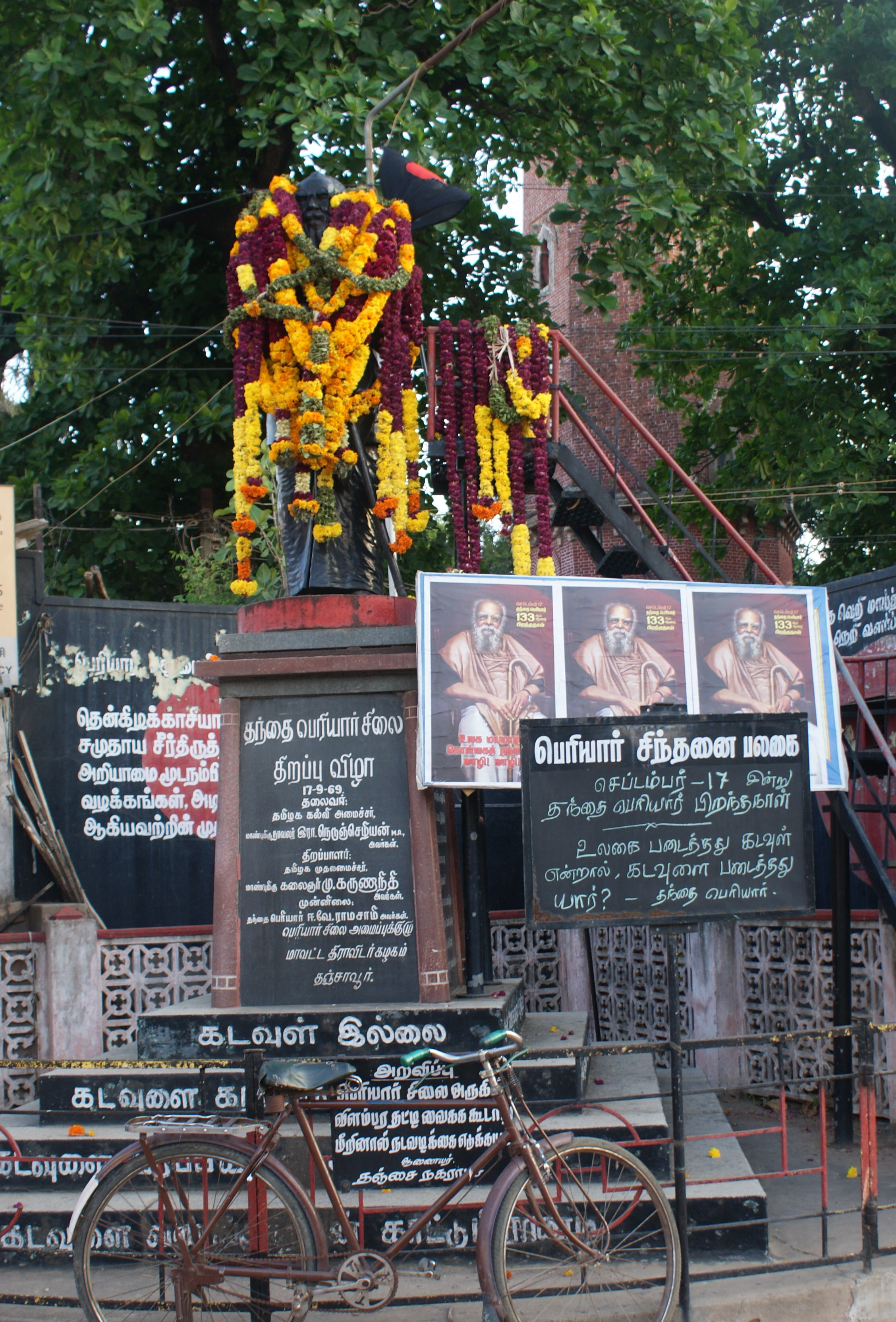 Statue of E. V. Ramasami (Periyar) in Thanjavur, garlanded on the previous day on the occasion of his birth anniversary